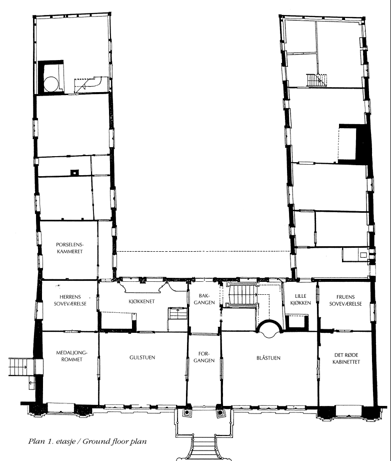 A map of the ground floor, Damsgård hovedgård, Bergen, Norway.